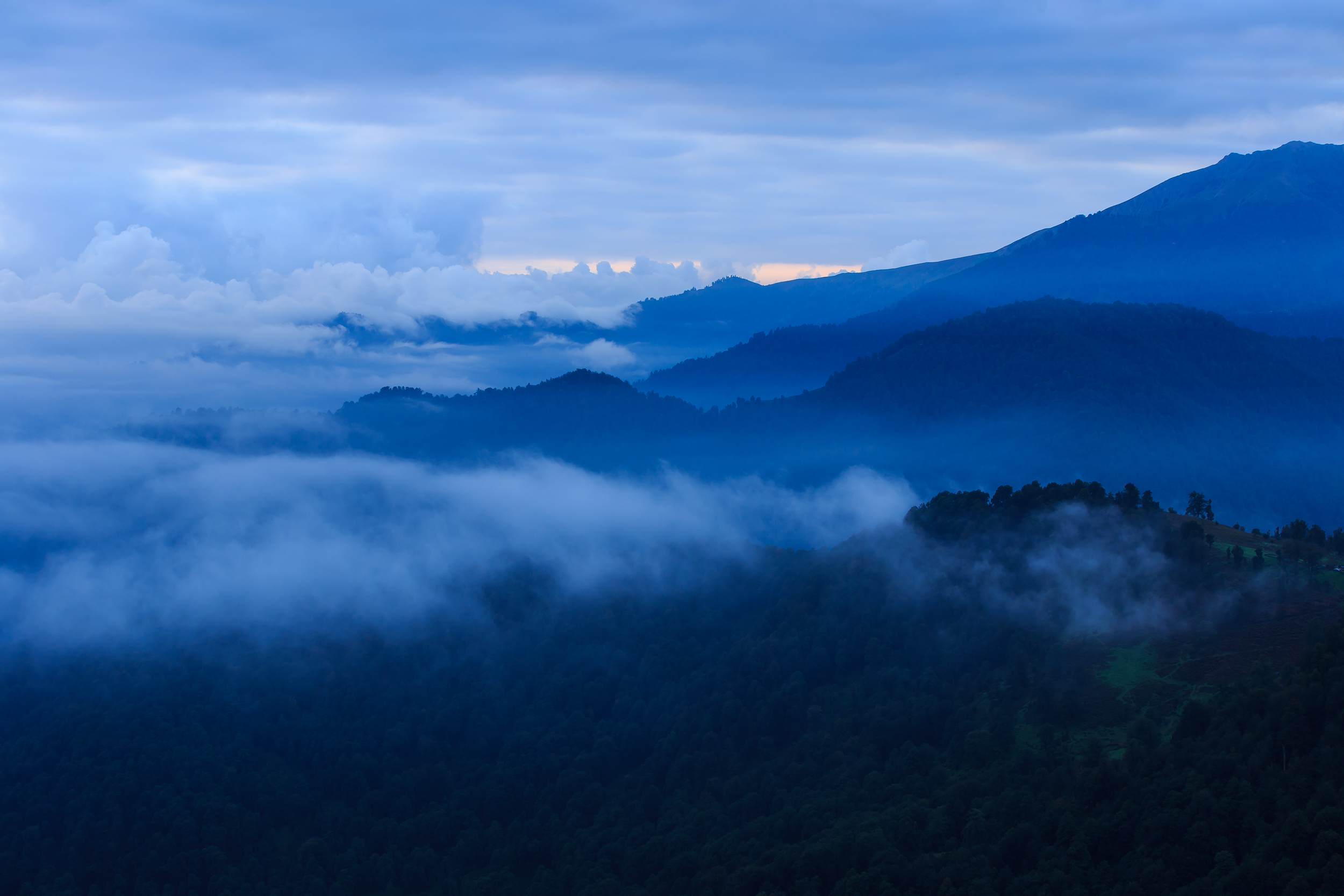 Nature of Masal in Gilan province of Persia (Iran) - Photo by Payam Jahangiri / Persian Dutch Network